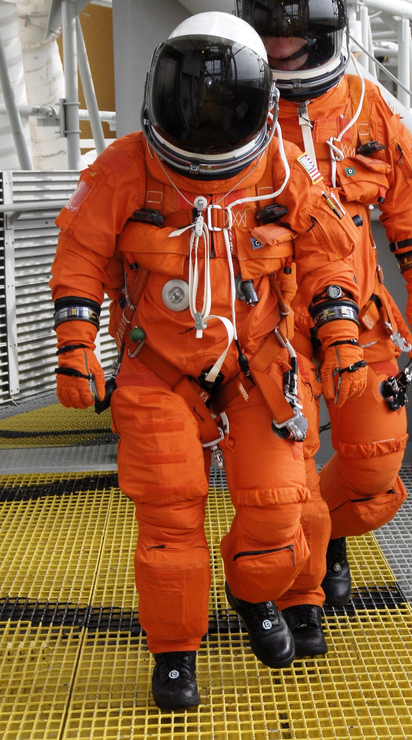 CAPE CANAVERAL, Fla. - On Launch Pad 39A at NASA's Kennedy Space Center in Florida, members of space shuttle Endeavour's STS-130 crew, dressed in their helmets and launch-and-entry suits, approach the pad's slidewire baskets, part of the emergency exit system at the pad. The system includes seven baskets suspended from seven slidewires that extend from the fixed service structure to a landing zone 1,200 feet west of the pad. The crew members of space shuttle Endeavour's upcoming mission are finishing the training related to their launch dress rehearsal, the Terminal Countdown Demonstration Test. The primary payload on STS-130 is the International Space Station's Node 3, Tranquility, a pressurized module that will provide room for many of the station's life support systems. Attached to one end of Tranquility is a cupola, a unique work area with six windows on its sides and one on top. Endeavour's launch is targeted for Feb. 7.